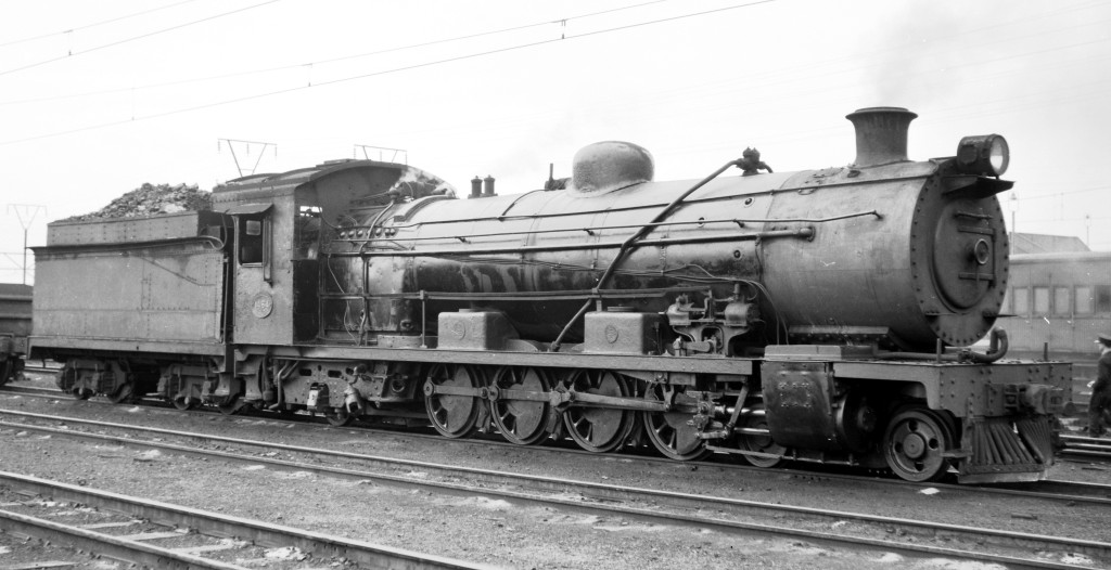 South African Railways Class 3R 1464 (4-8-2) Location: Paardeneiland